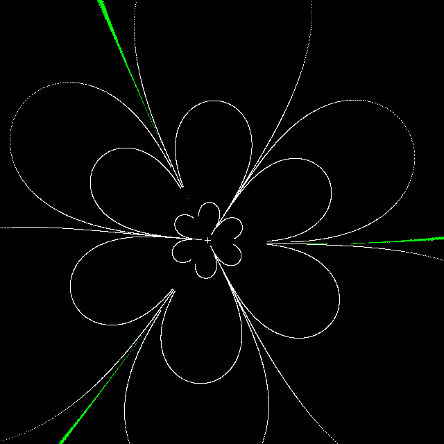 Orbits near fixed point of fat Douady rabbit Julia set. One can see a flower with n=3 petals and six = 2*n sepals